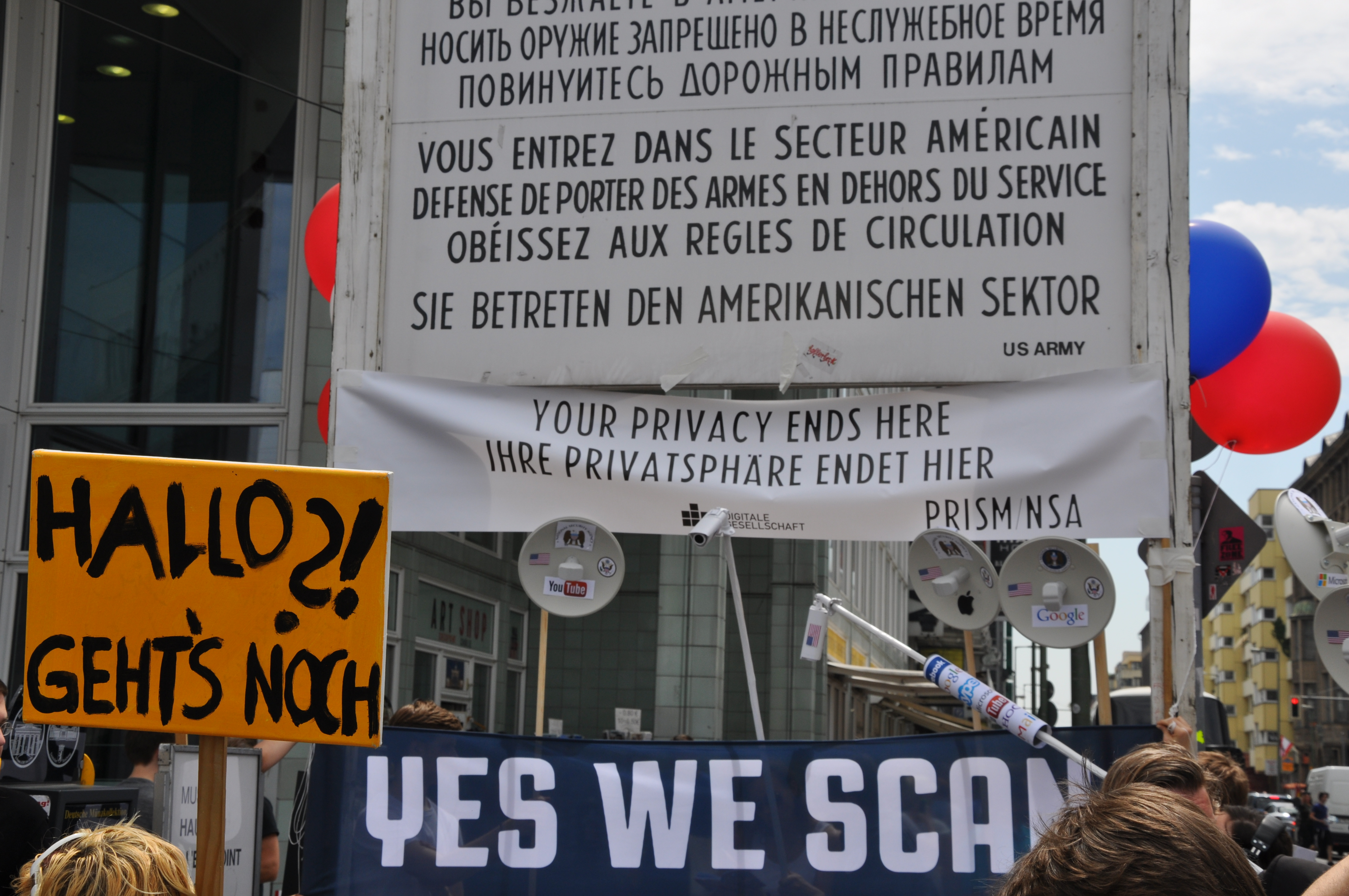 Yes we scan - Demo am Checkpoint Charlie